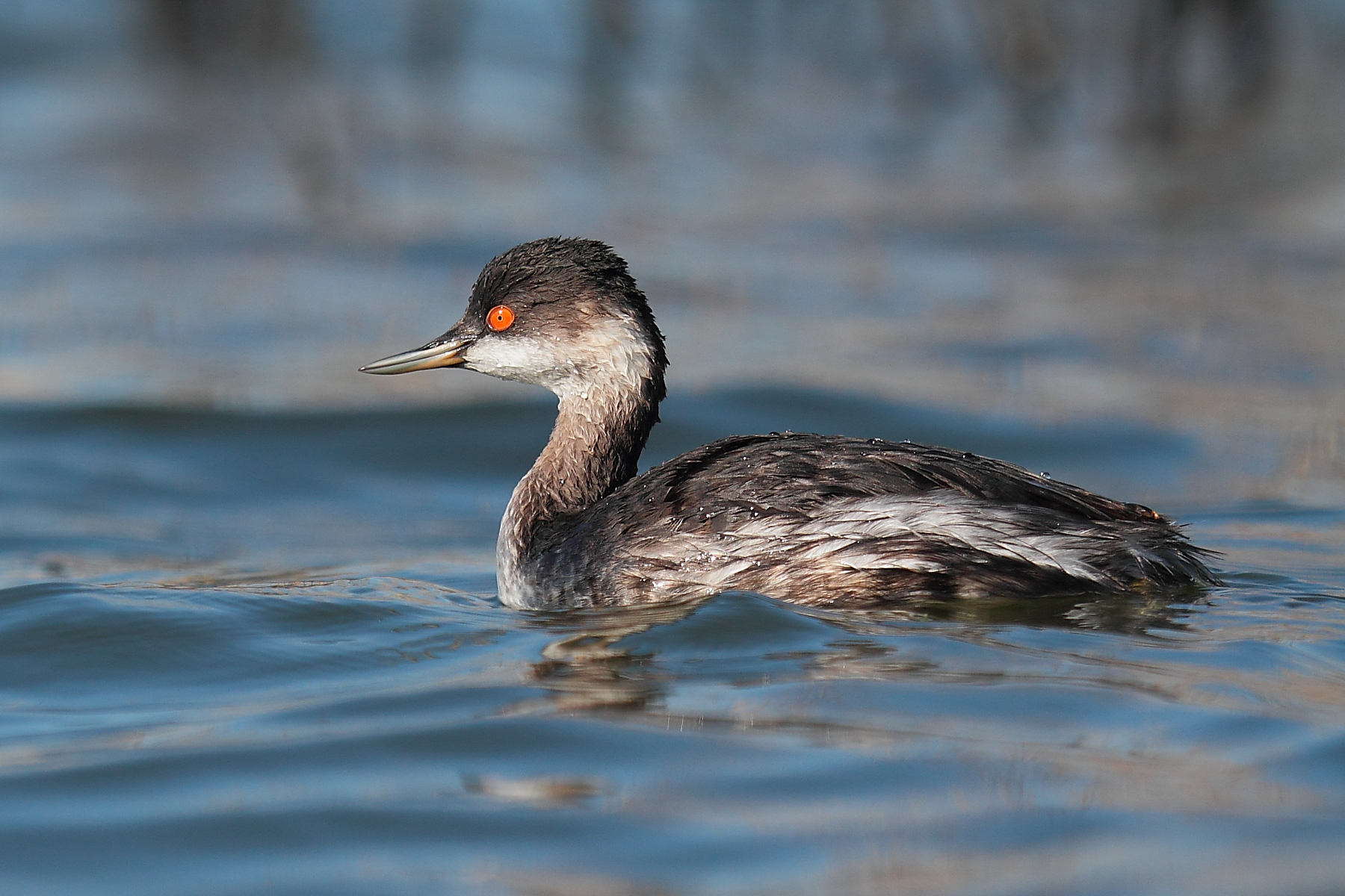 Podiceps nigricollis, Spain